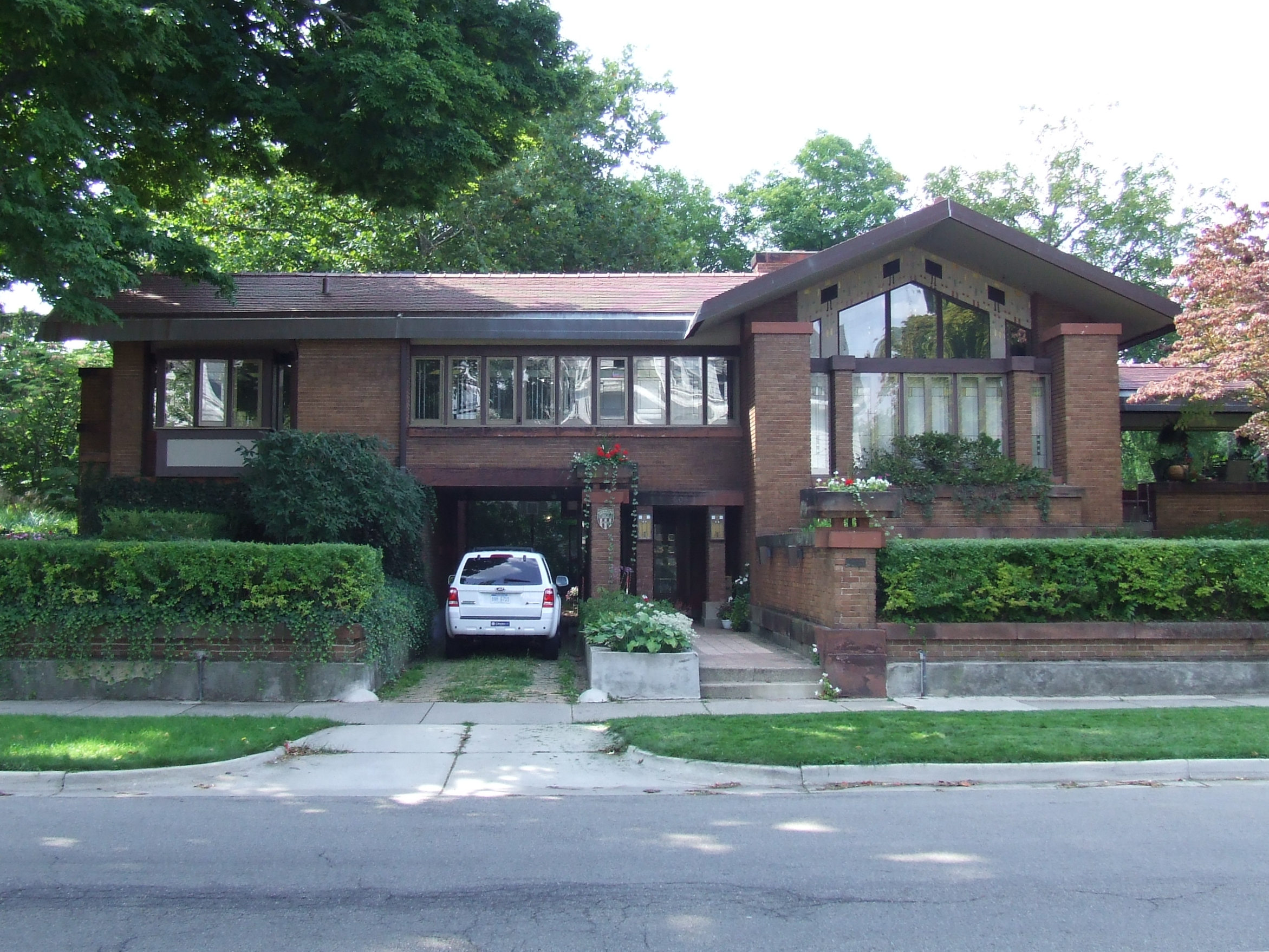 David M. Amberg House — in Grand Rapids, Michigan. 1910 design by Frank Lloyd Wright, and Marion Mahony Griffin in the Oak Park studio.. A contributing building to the Heritage Hill Historic District.